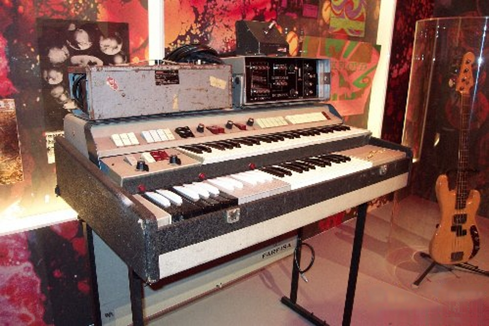 Photos of the "Pink Floyd Interstellar" exhibition at the Cité de la Musique (Porte de la Villette, Paris). Read the story at .